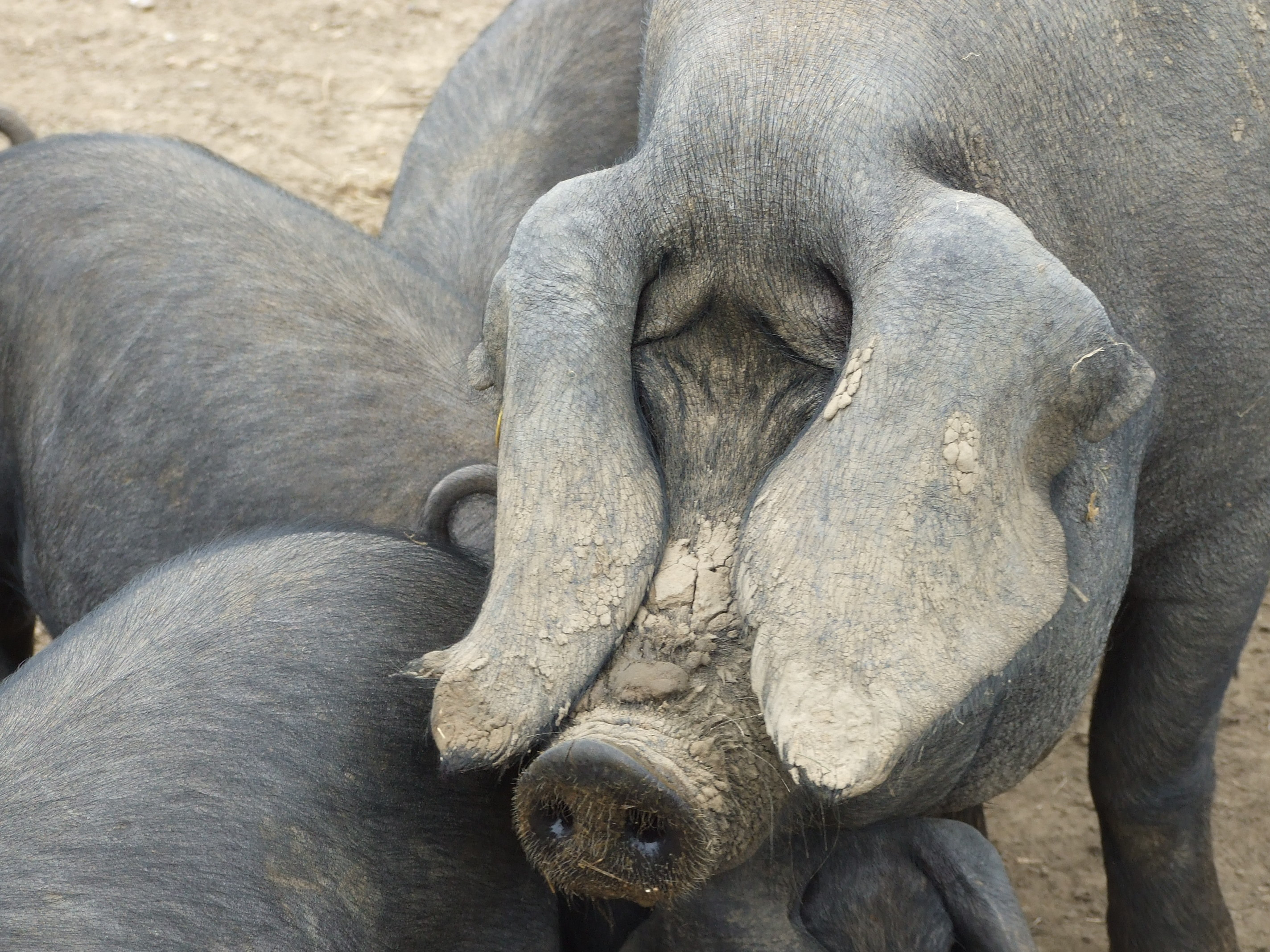 Close-up on a pig of the Large Black breed.